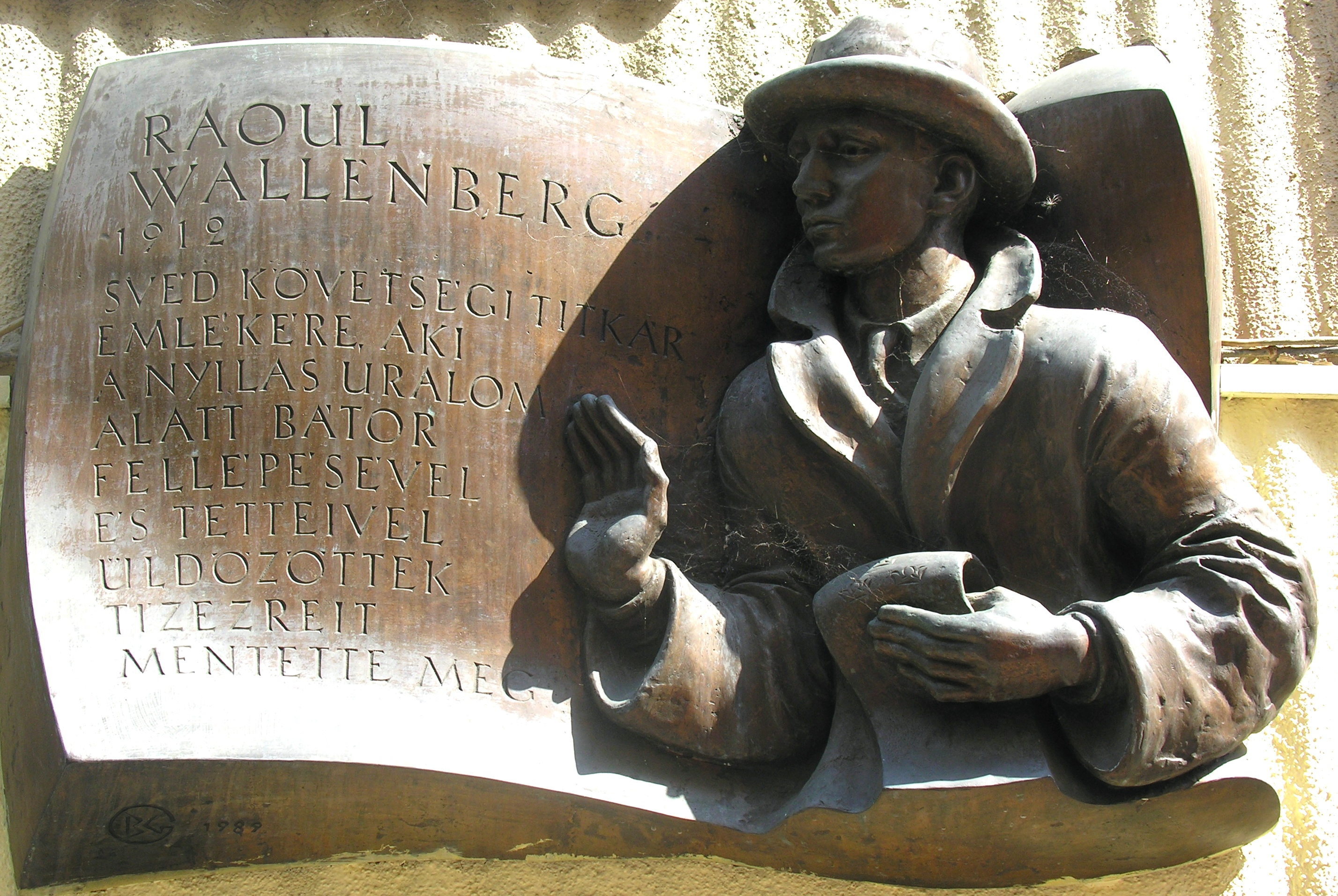 Commemorative plaque of Raoul Wallenberg (1912-1947?), Swedish diplomat who worked in Budapest, during World War II to rescue Jews from the Holocaust. (Budapest, District XIII, Raoul Wallenberg Street Nr 11).